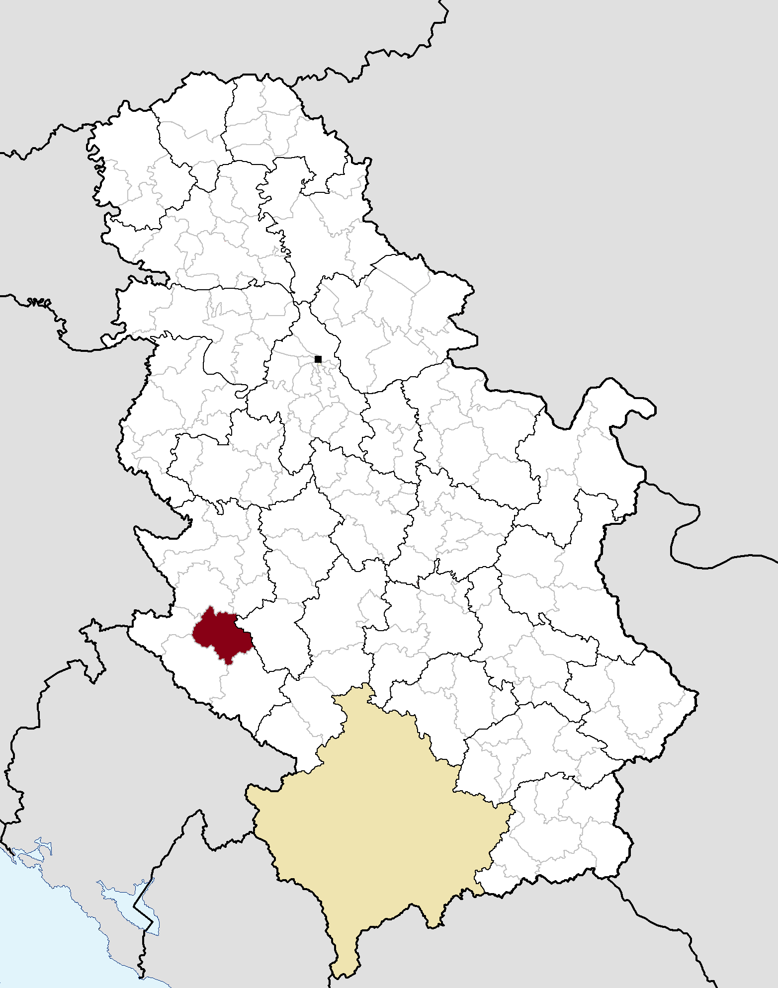 Municipal location in Serbia